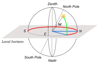 Azimuth and altitude. Image made Inkscape (SVG to PNG: problems with Inkscape)